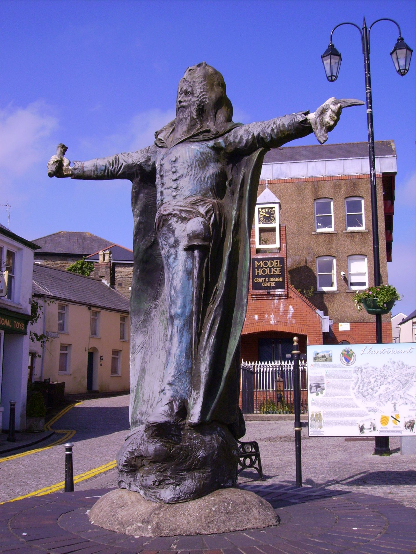 William Price (physician) - Statue in Llantrisant, Wales. Sculpture (1980–81) by Peter Nicholas (details)